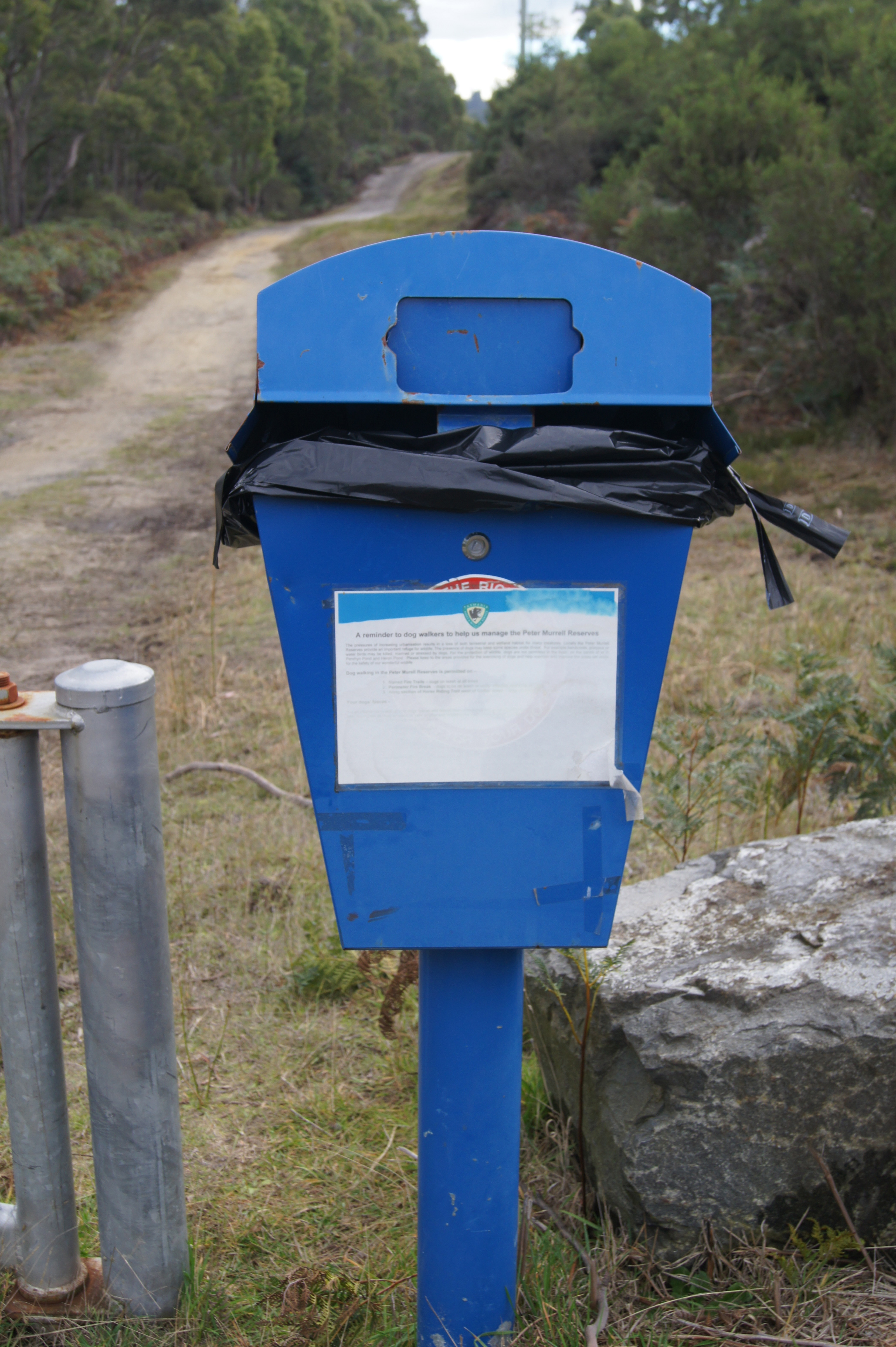 Provided by the TPWS